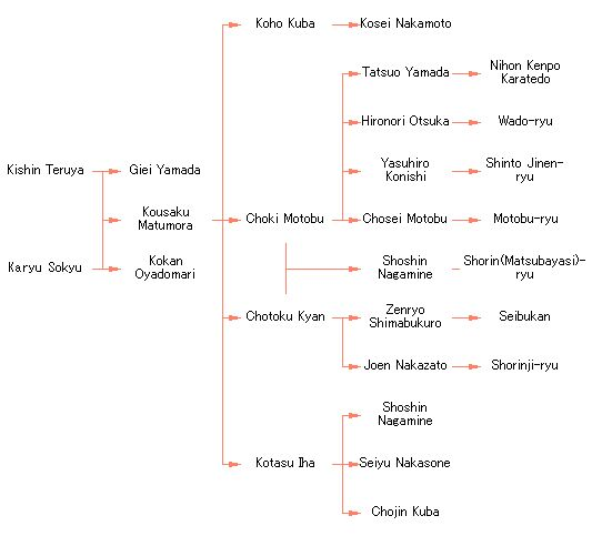 The lineage of Tomari-te